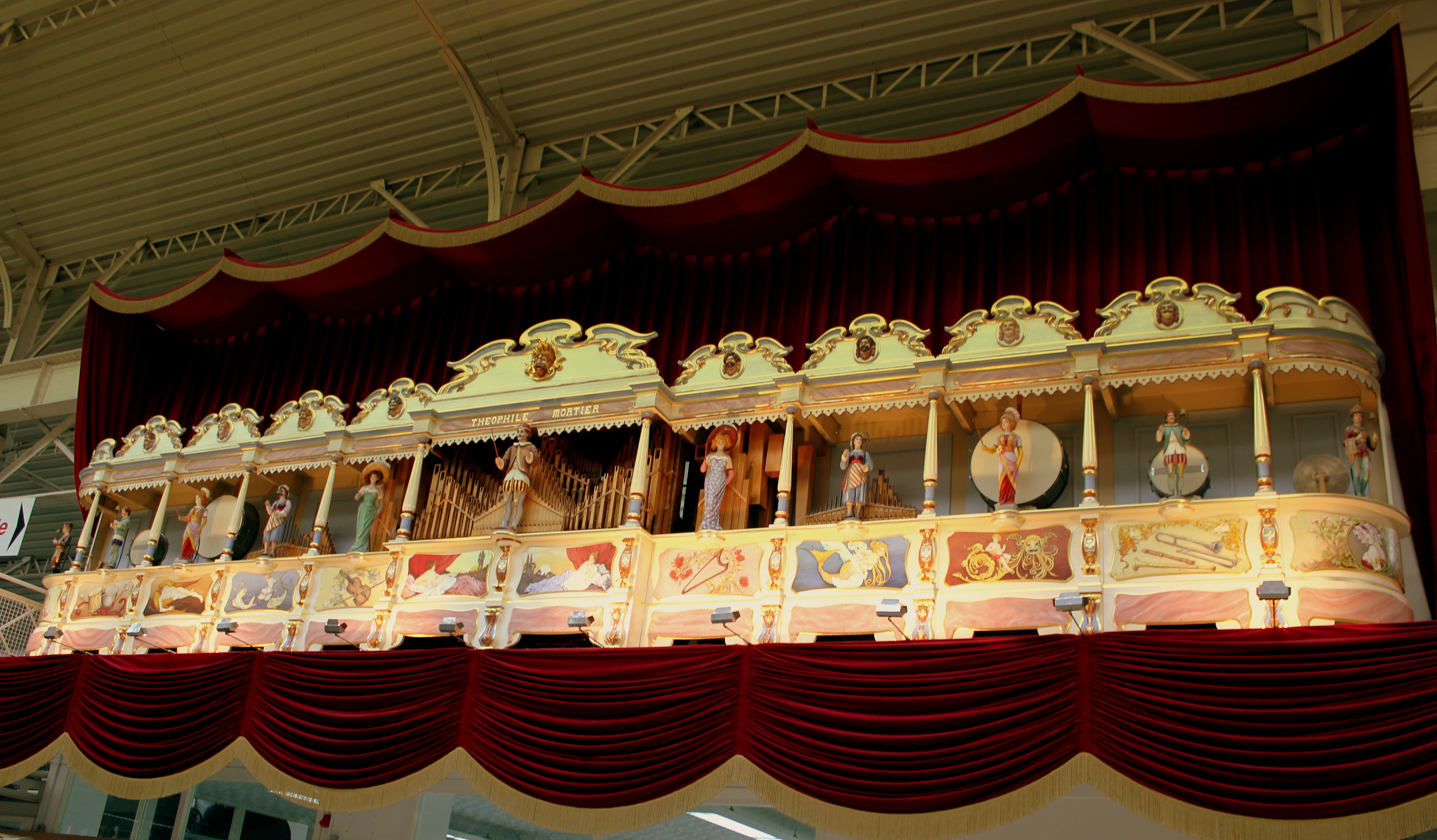 Theophile Mortier 100 Dance Organ #930, Technik Museum Speyer, Germany, April 2013 “GERMAN FAIRGROUND ORGAN AT THE TECHNIK MUSEUM SPEYER GERMANY APRIL 2013”